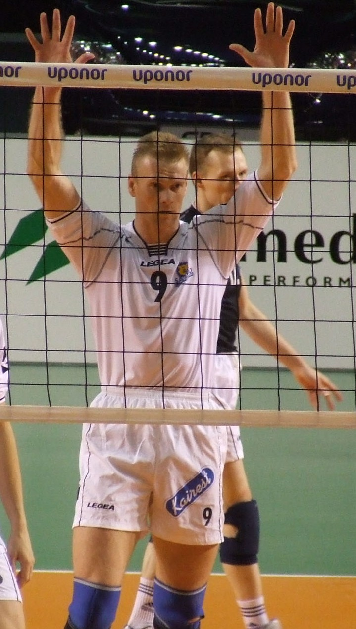 Latvian volleyball player Salvis Cielavs season 2007